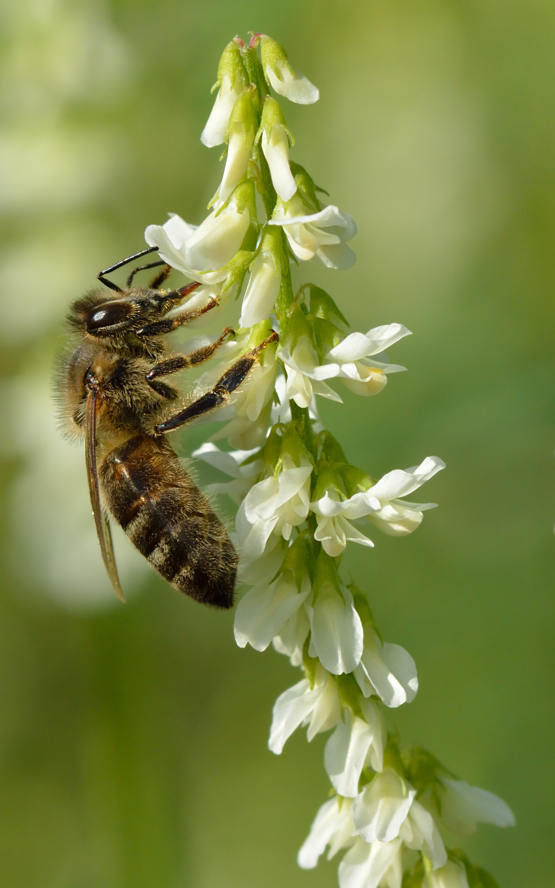 Honey bee (Apis mellifera) on the white sweet clover (Melilotus albus). Clover is an excellent nectar and pollen source for bees. Keila, Northwestern Estonia.